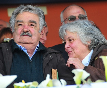 President and First Lady of Uruguay, José Mujica and Lucía Topolansky.